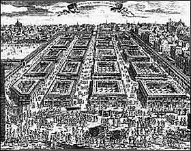 Mairie de Paris Note: The identification of this image as the Foire Saint-Germain is questionable. For comparison, see File:Foire Saint-Laurent from Essai sur l'histoire du theatre.jpg According to Bapst (1893) this is the Foire Saint-Laurent